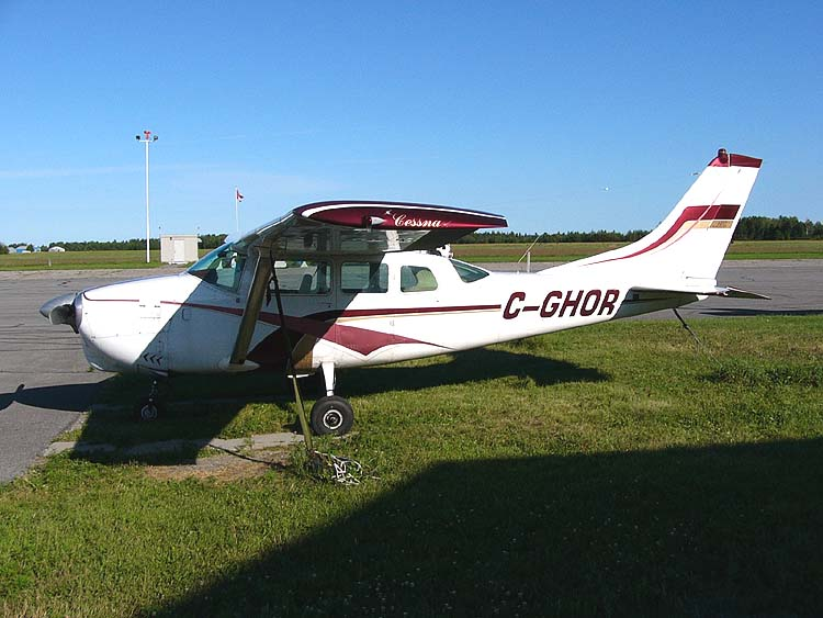 Cessna 205. I took this photo at Carp Airport (Ontario) on 30 July 2006